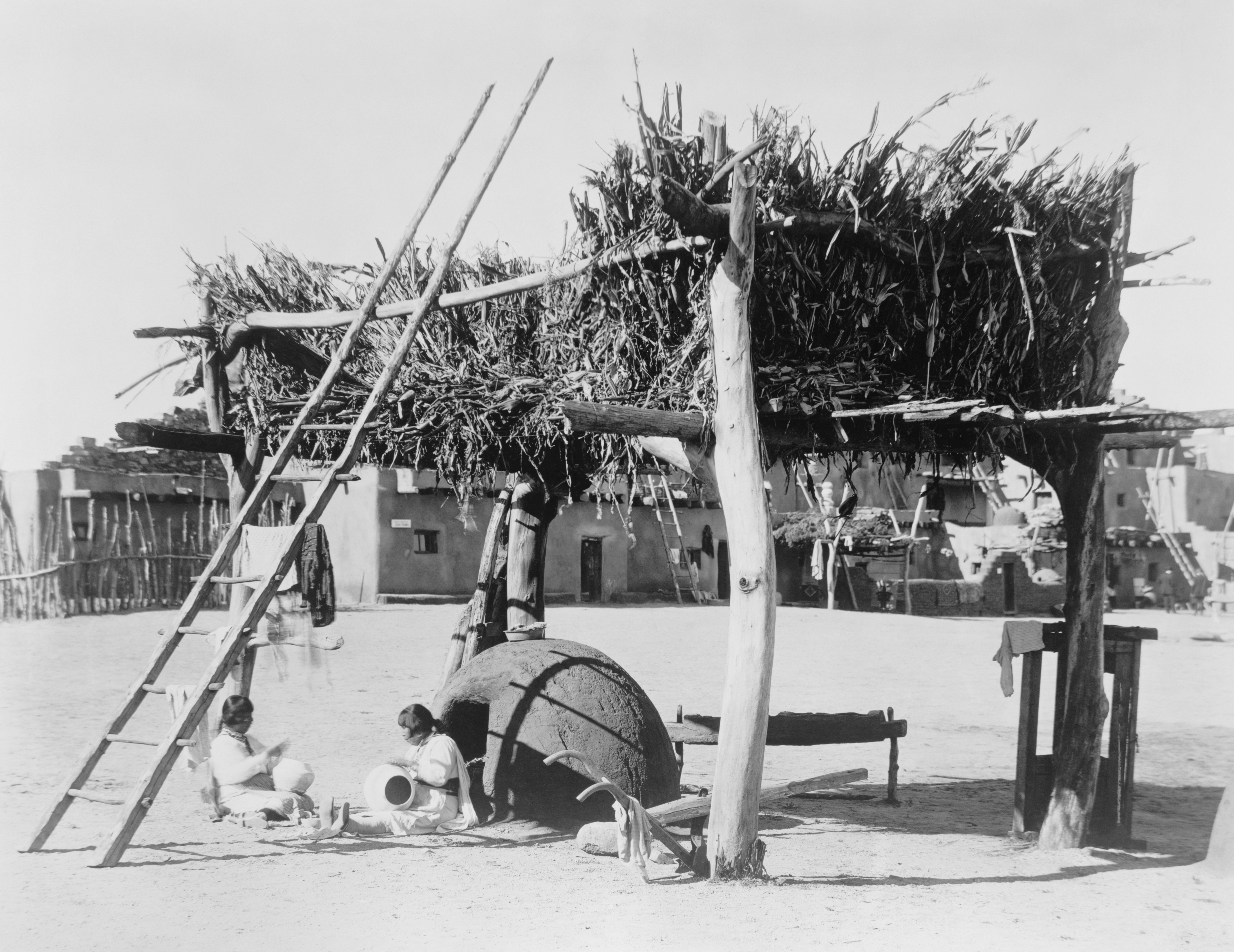 "A drying platform of the Zunis" "Photograph shows Zuni women making pottery beneath a drying platform composed of tree trunks and limbs forming the framework and flooring, on which is placed tall plants and corn, in an exhibition display of the "painted desert" of the Sante Fe on the grounds of the Panama-California Exposition in San Diego, California."